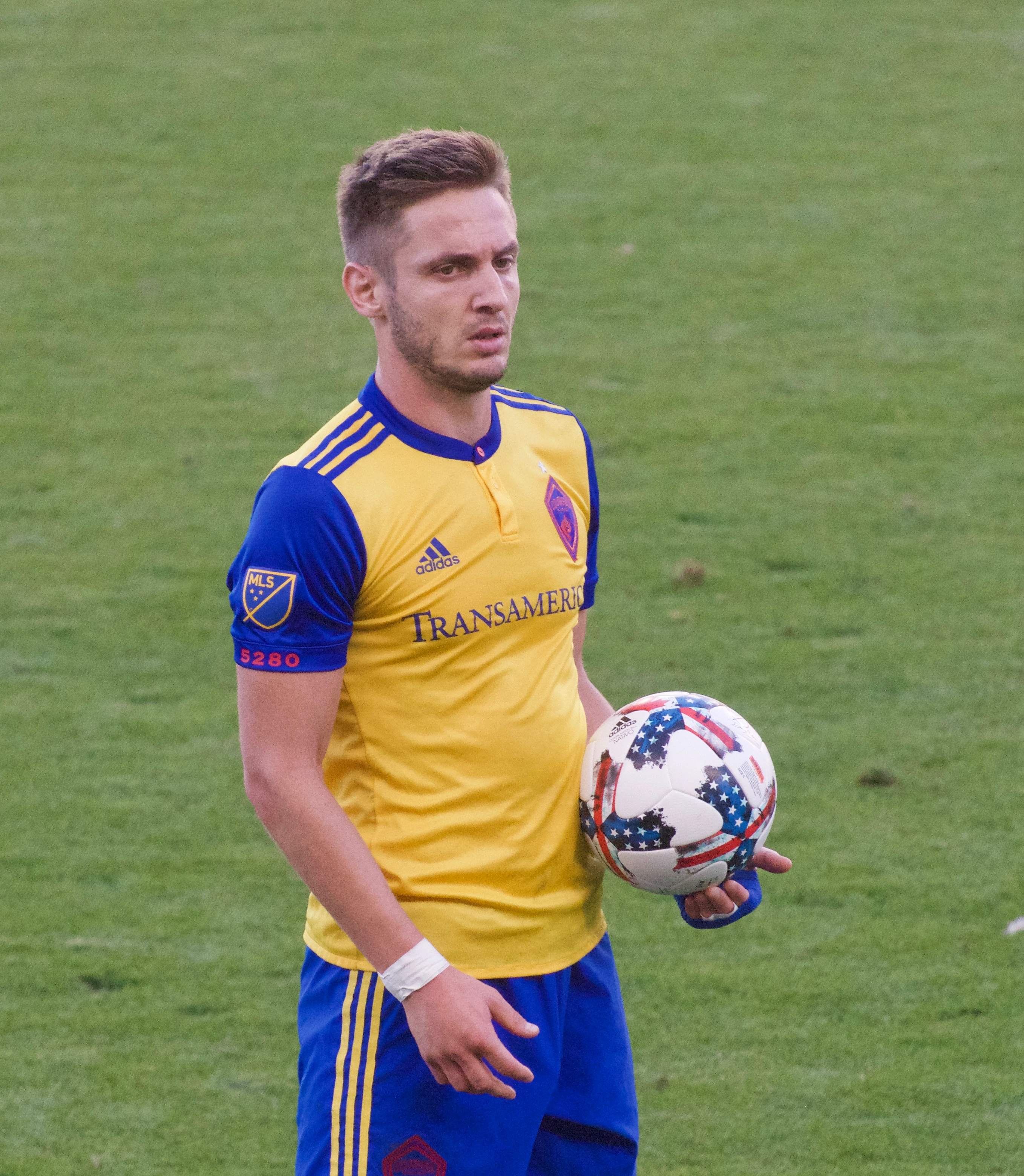 Kevin Doyle playing for Colorado Rapids at Avaya Stadium, 2017-07-29